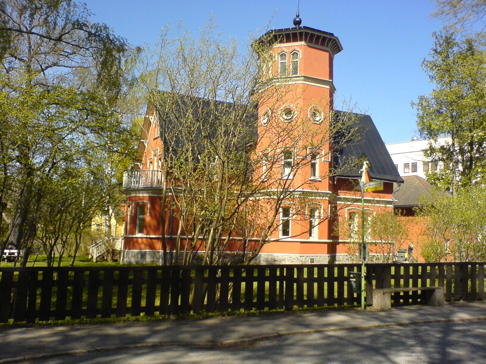 The house Villa Åsen, seen from the street. Located in Kåbo, Uppsala, Sweden.